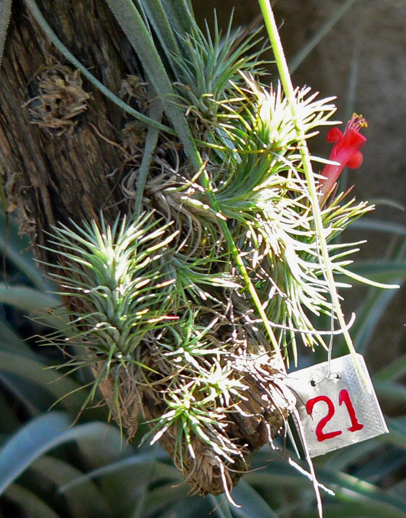 Photo of Tillandsia funckiana at Balboa Park